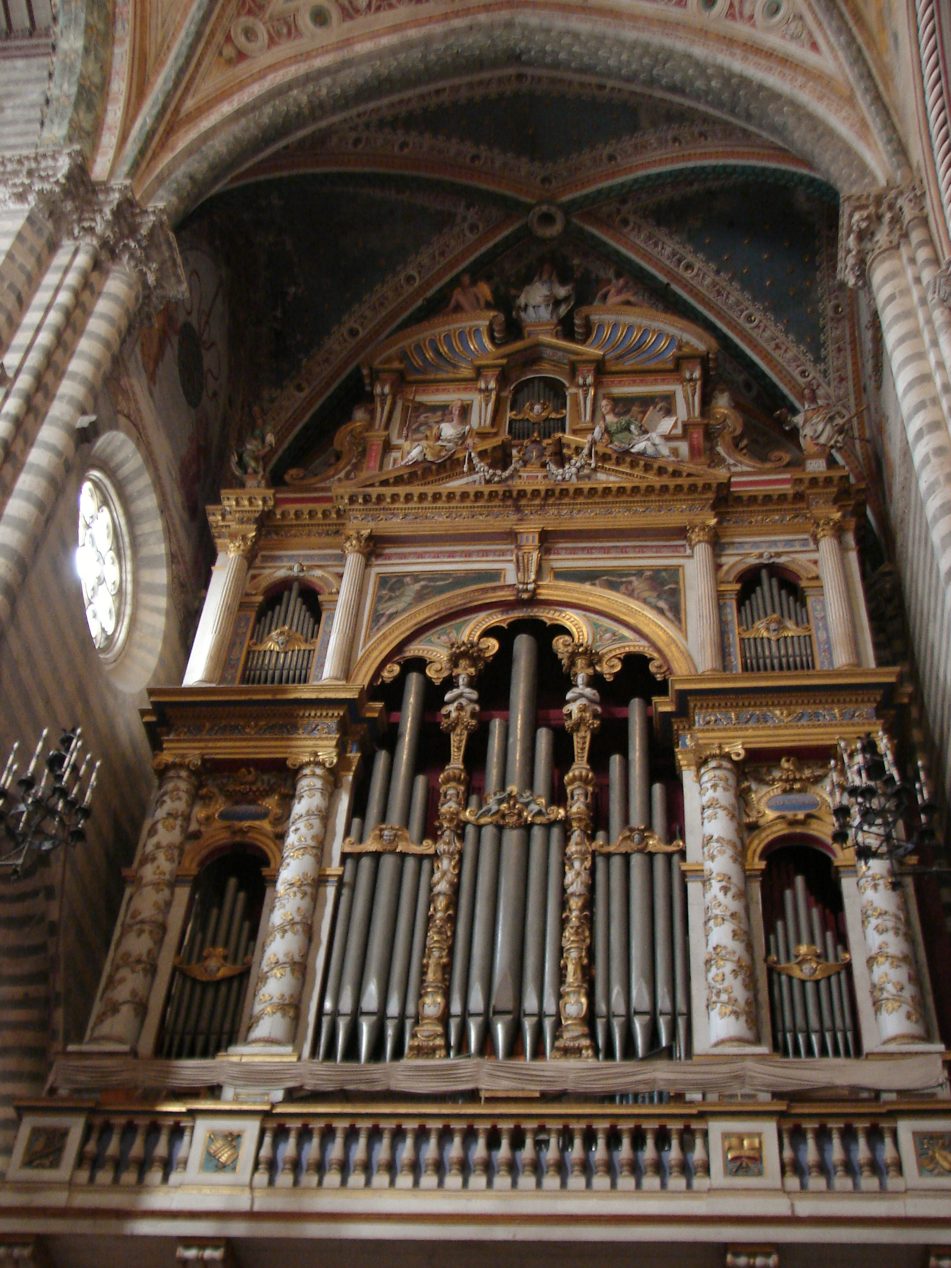 The organ at Orvieto Cathedral